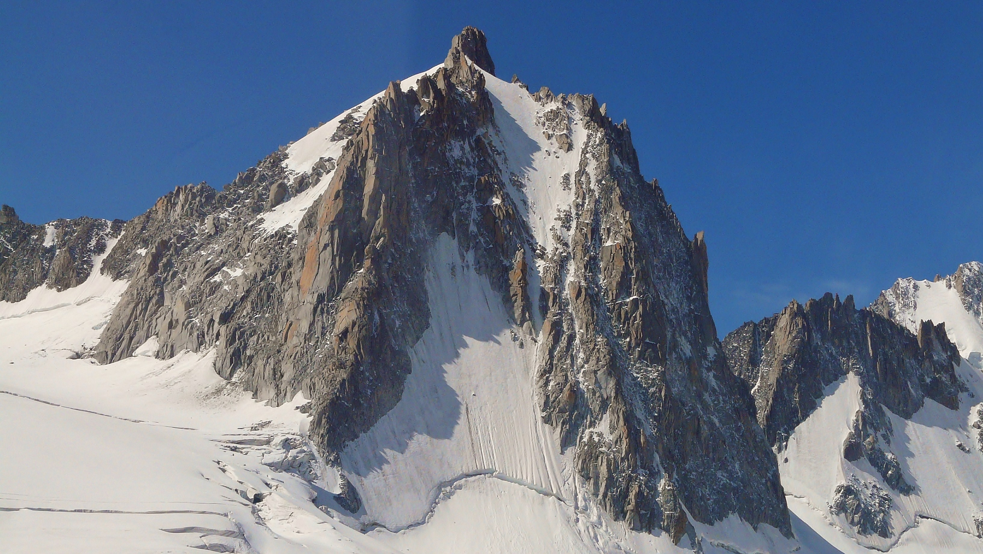 The north face of la Tour Ronde (3,792 m) as seen from a telecabine between Punta Helbronner and Aiguille du Midi in 2009 July.